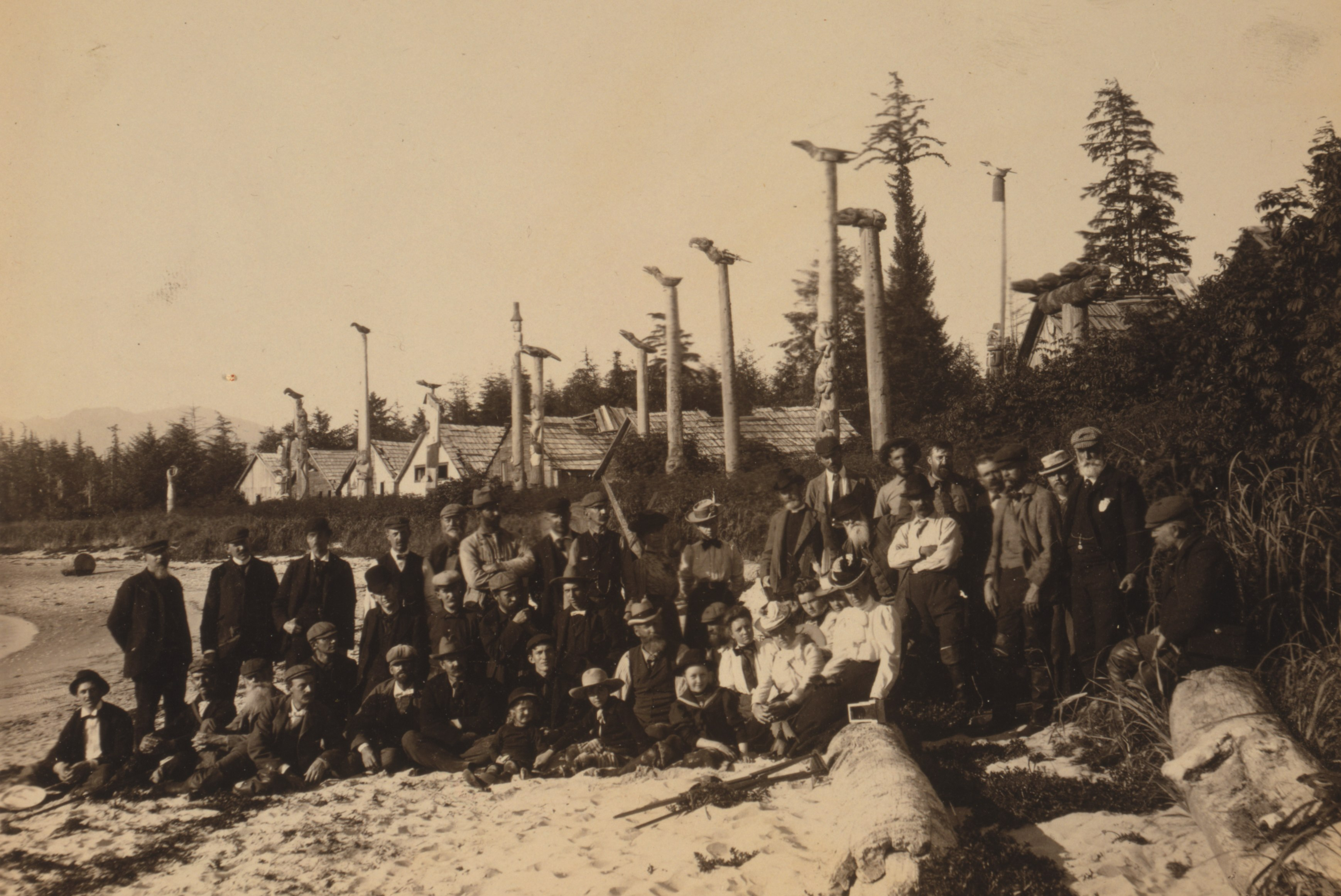 Title: Harriman Alaska Expedition members pose on beach at deserted Cape Fox village, Alaska, 1899, with Tlinget totem poles in background] / Curtis Abstract/medium: 1 photographic print.